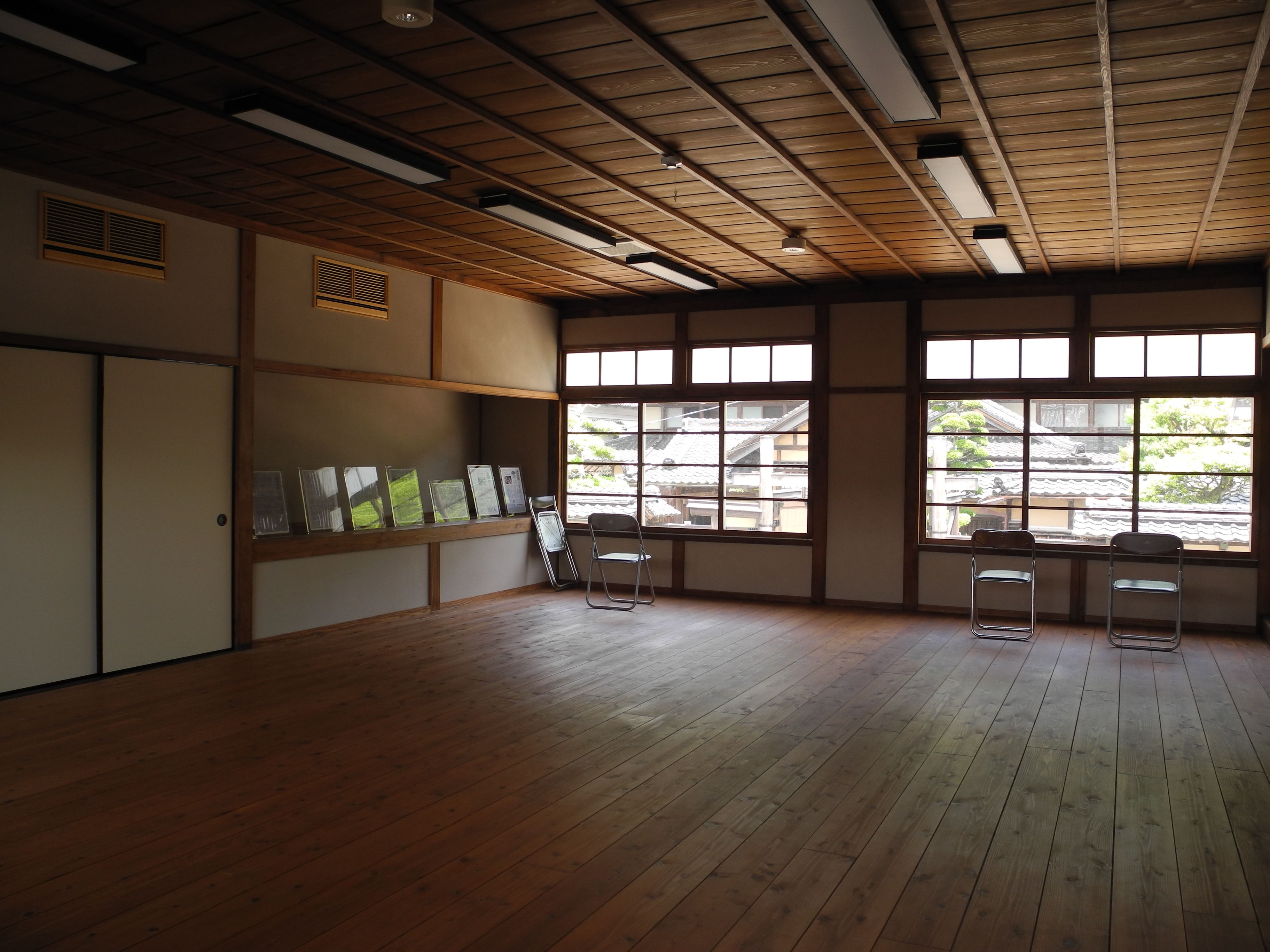 Chizu fire brigade Hommachi branch garrison, Chizu, Tottori, Japan